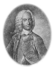 Johann Friedrich von Borries 1681-1751